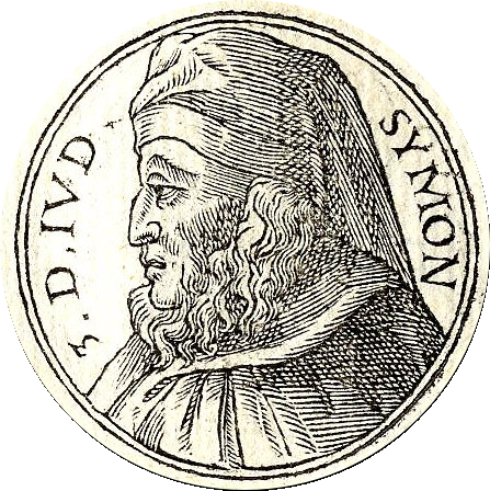 Simon Maccabaeus